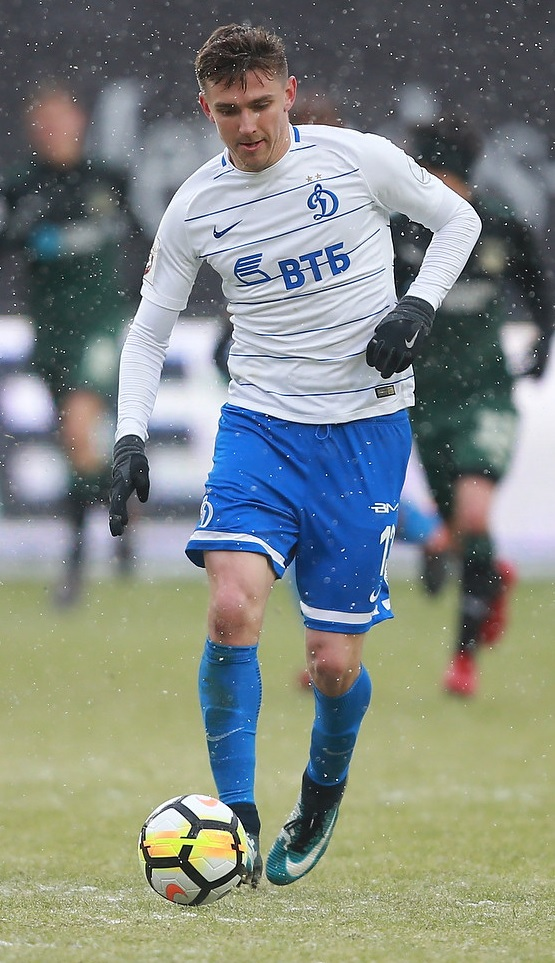 Fiodor Černych with FC Dynamo Moscow in a game against FC Krasnodar.